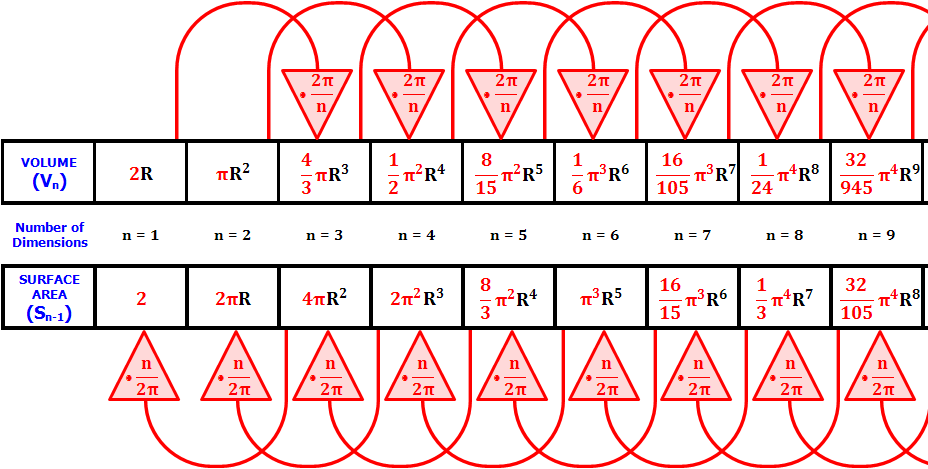 Table of n-sphere volumes and surface areas for 1 to 9 dimensions